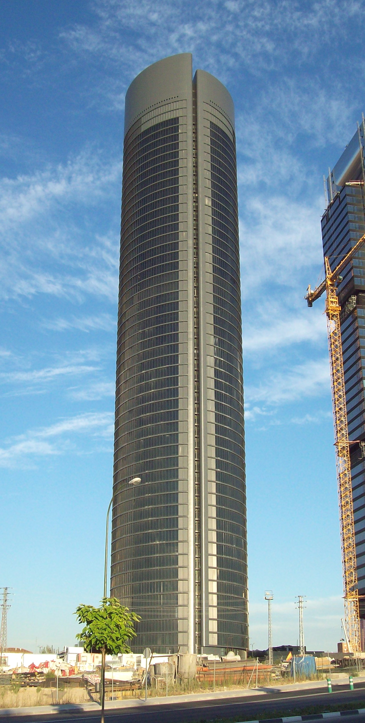 View of PwC Tower in Cuatro Torres Business Area in Madrid (Spain). Architects: Carlos Rubio Carvajal and Enrique Álvarez-Sala Walter.